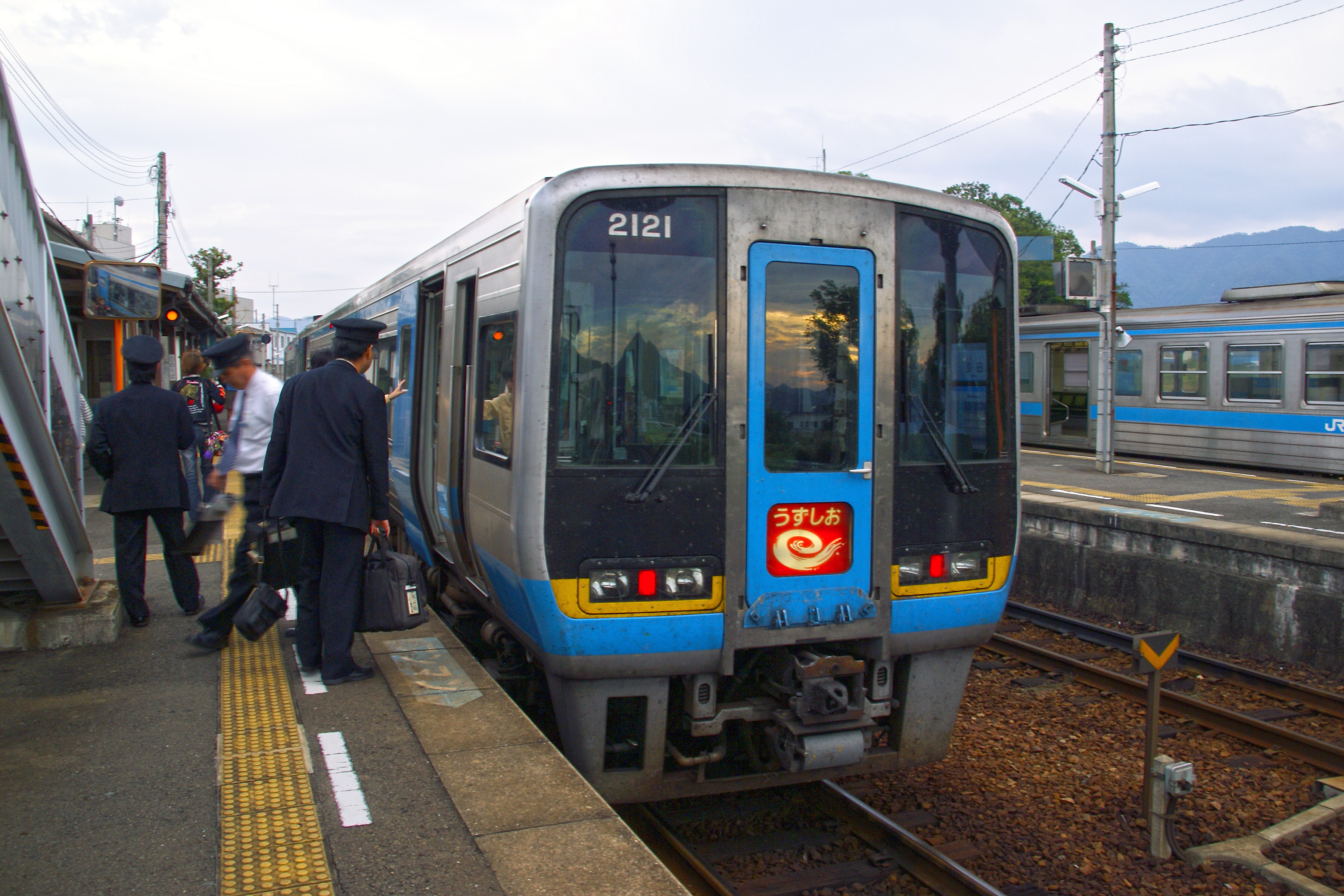 Hiketa Station in Higashikagawa, Kagawa prefecture, Japan